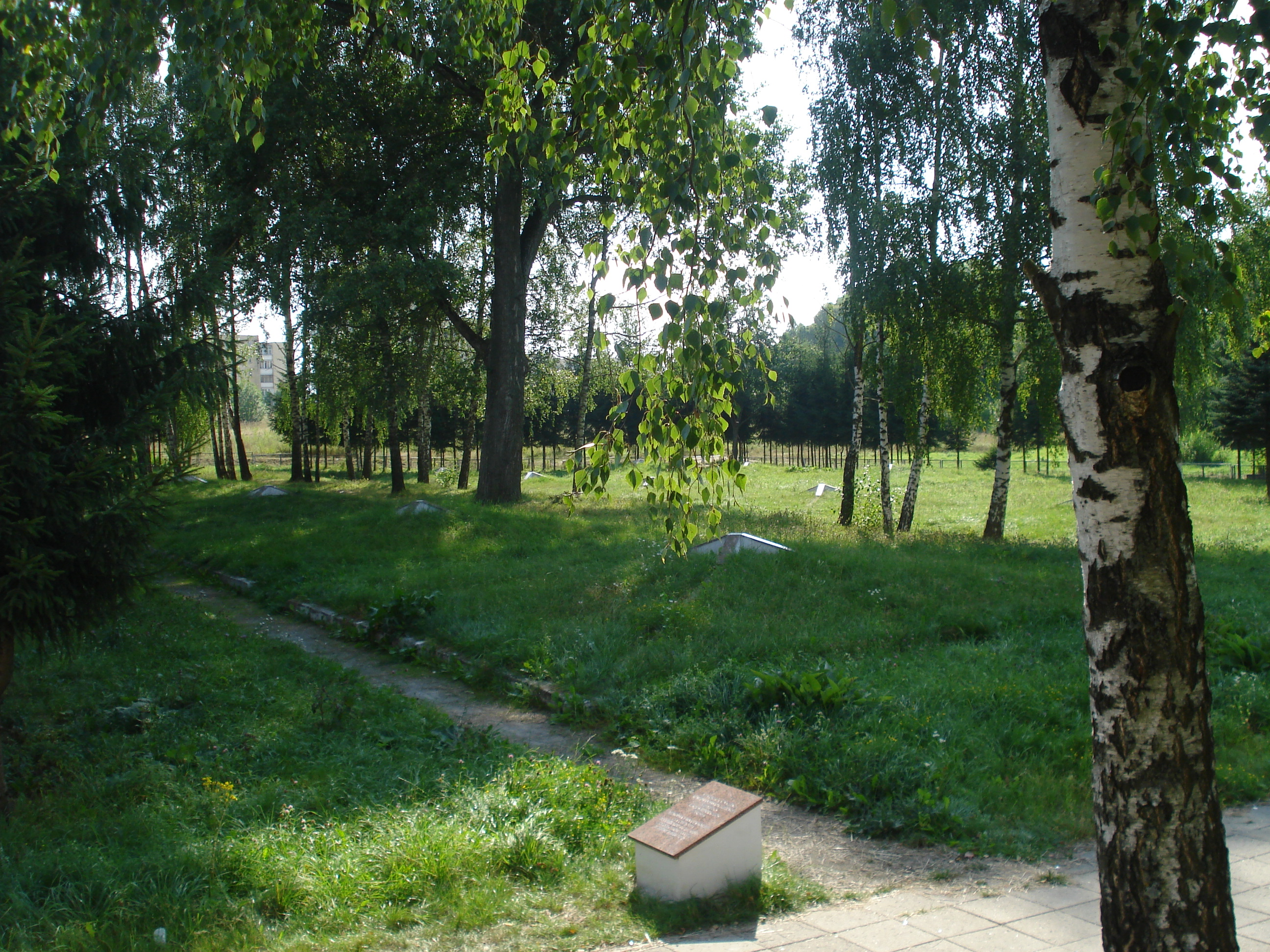 common graves of the ca. 4500 Soviet prisoners of war died in 1941—1943 in Naujoji Vilnia